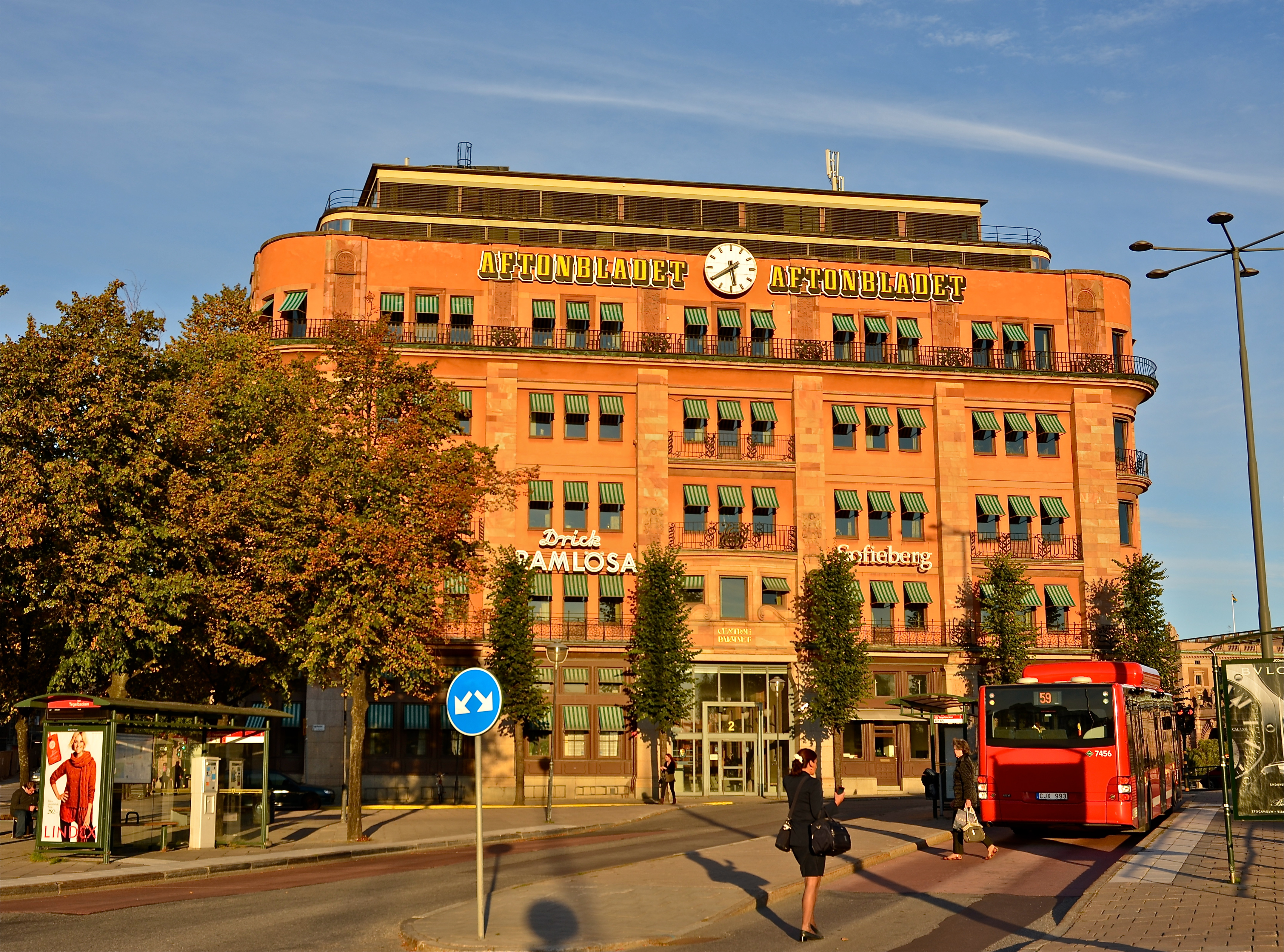 Centralpalatset in Stockholm. Built in 1896–98 it today houses the Ministry of the Environment.